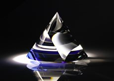 Mr. Jan Frydrych's optical glass sculpture.